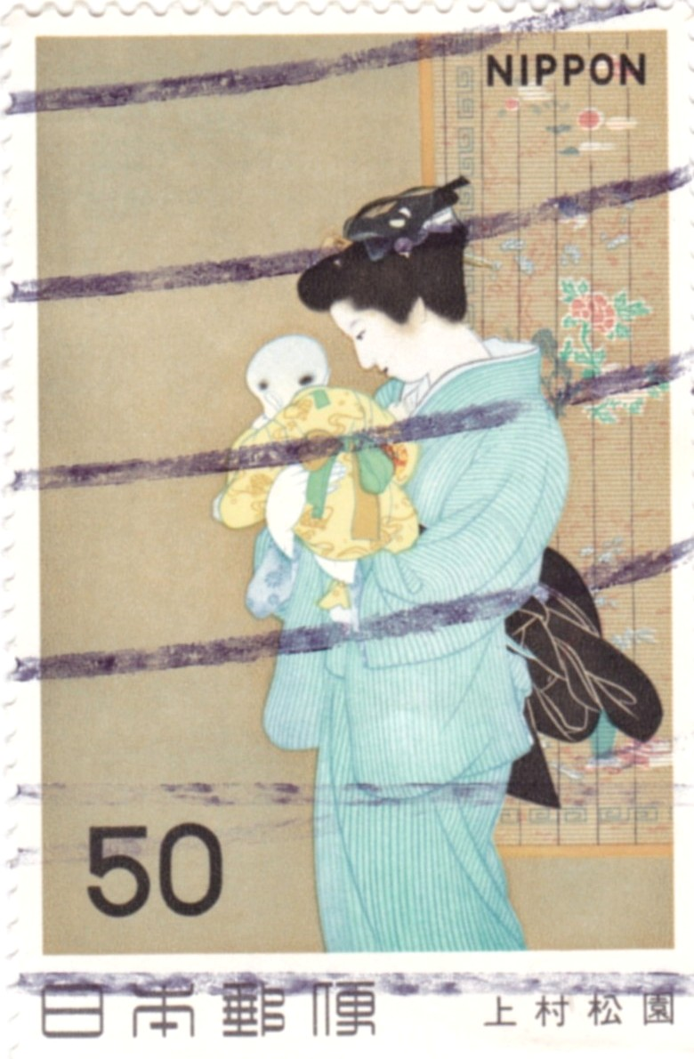 mother with child